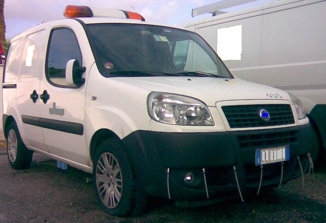 A van for gas leak detection on road